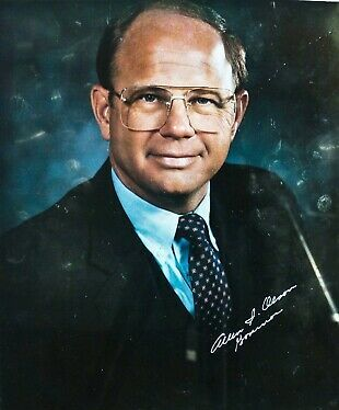 Allen Olson, former governor of North Dakota